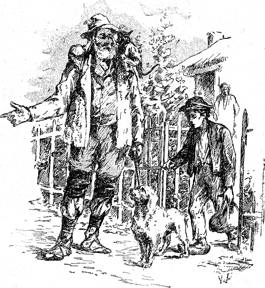 Title page from Nobody's Boy (1878) by Hector Malot (1830-1907)